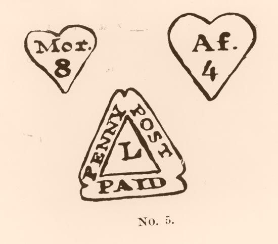 Photo image of postmarks used by London Penny Post in 1680-1682